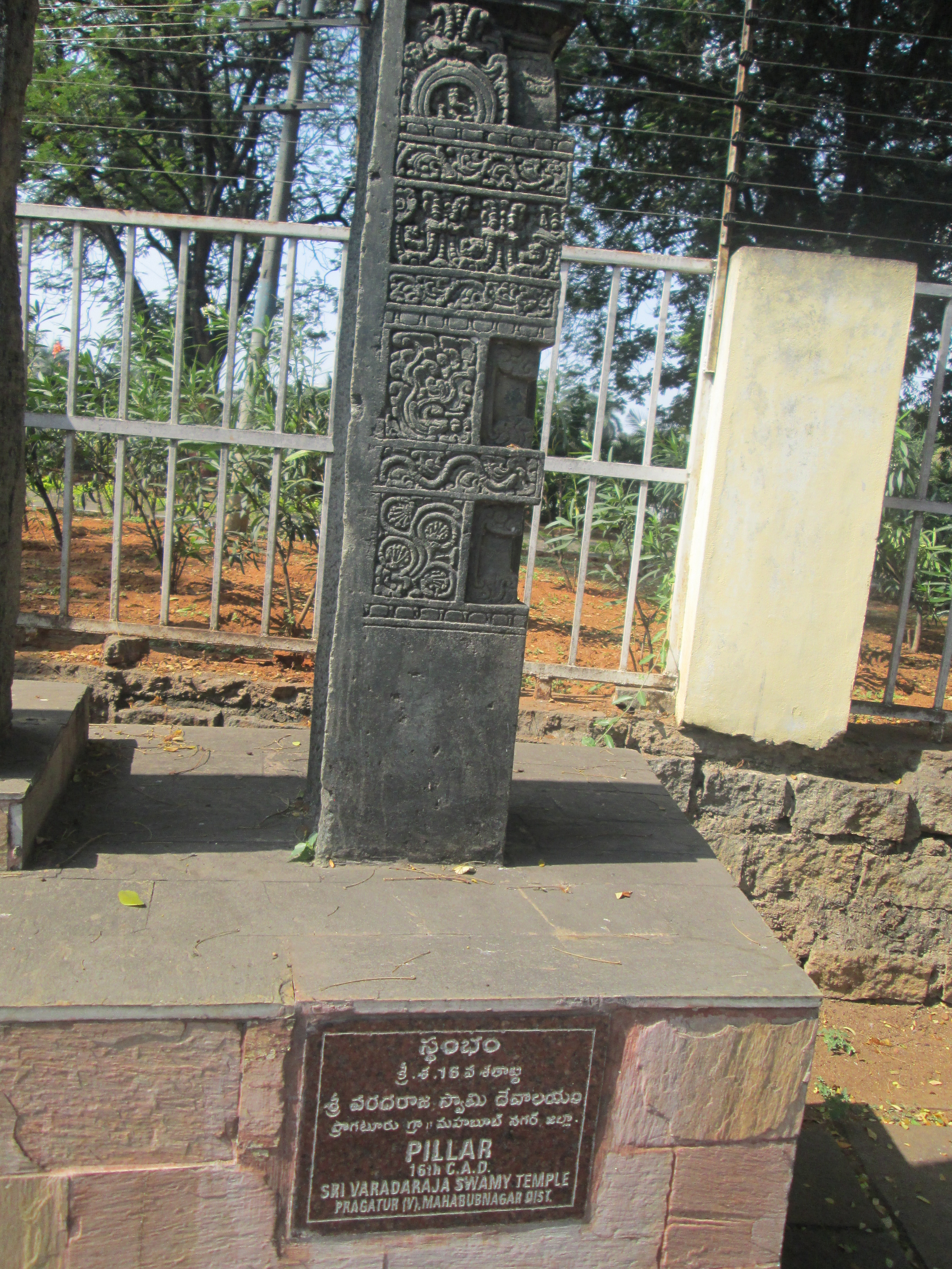 YSR State arch museum - yamuna devi, kondimalla, mahaboobnagar dist.